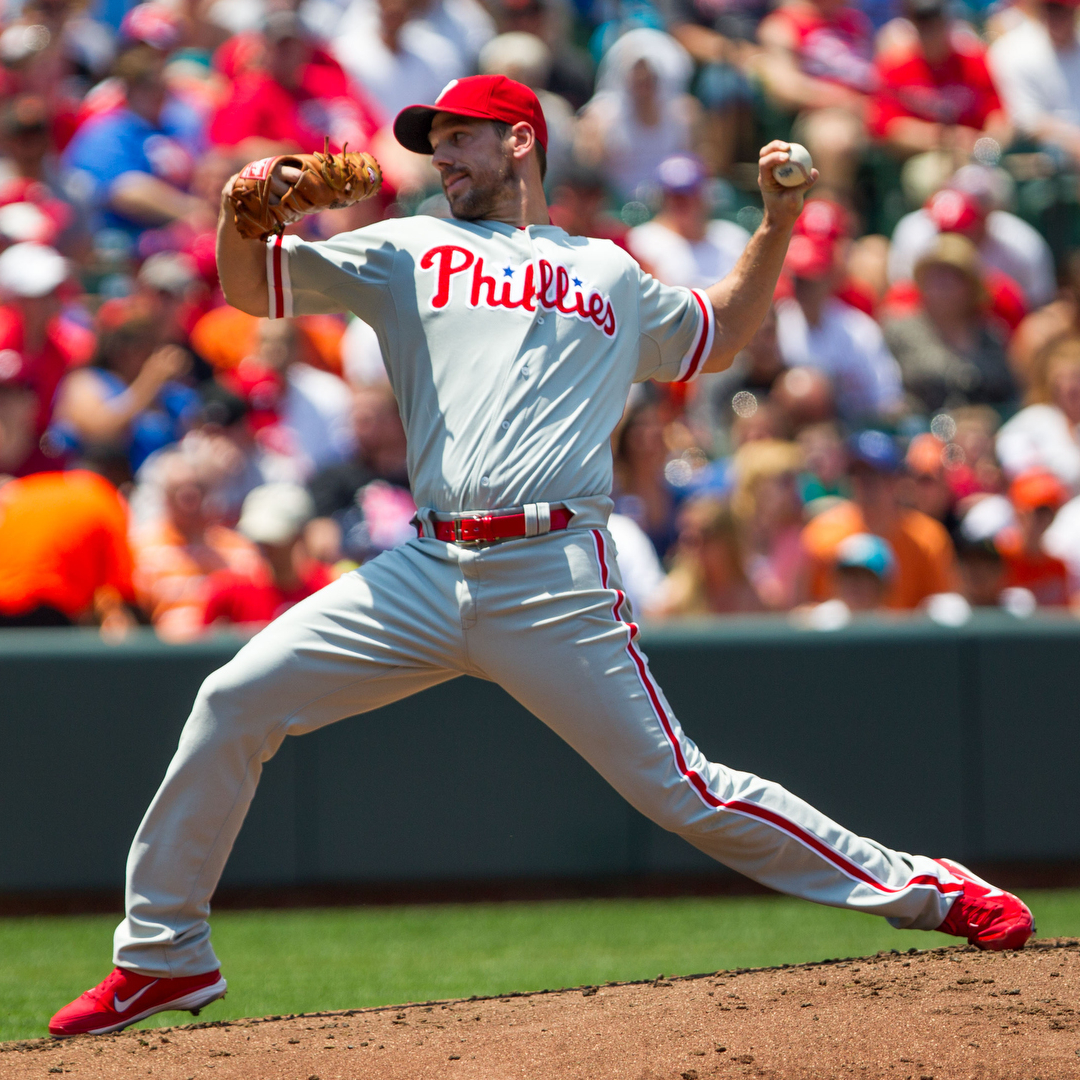 Cliff Lee